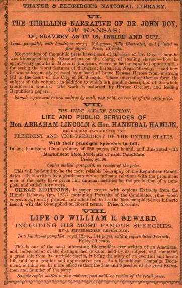 Advertisement for Thayer and Eldridge, publishers, Boston, Massachusetts